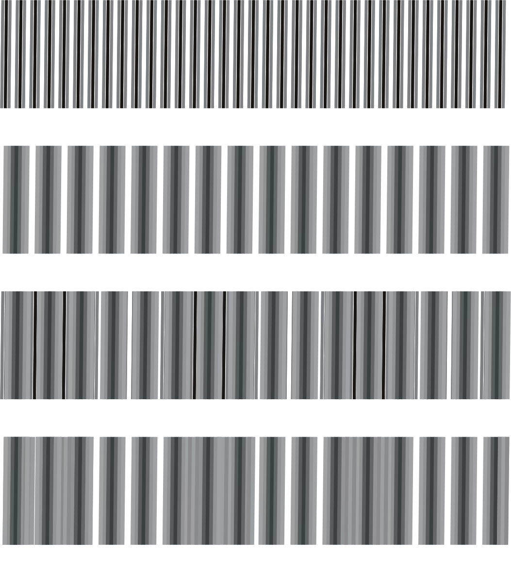 Schematic illustration of structured illumination where the combination of a resolved pattern (second row) superimposed on one beyond the diffraction limit (top row) features Moire fringe components (third row) that are within the diffraction limit and hence contained in image (bottom row)..